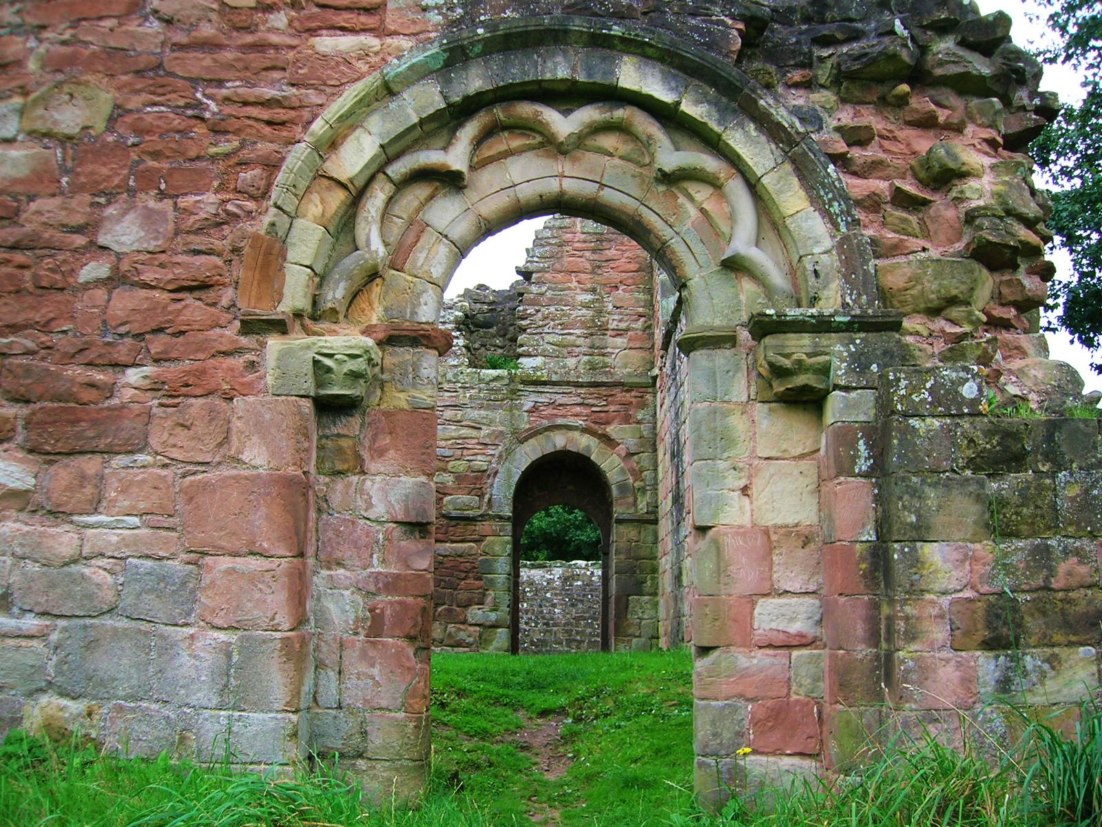 Romanesque archway at White Ladies Priory, Boscobel